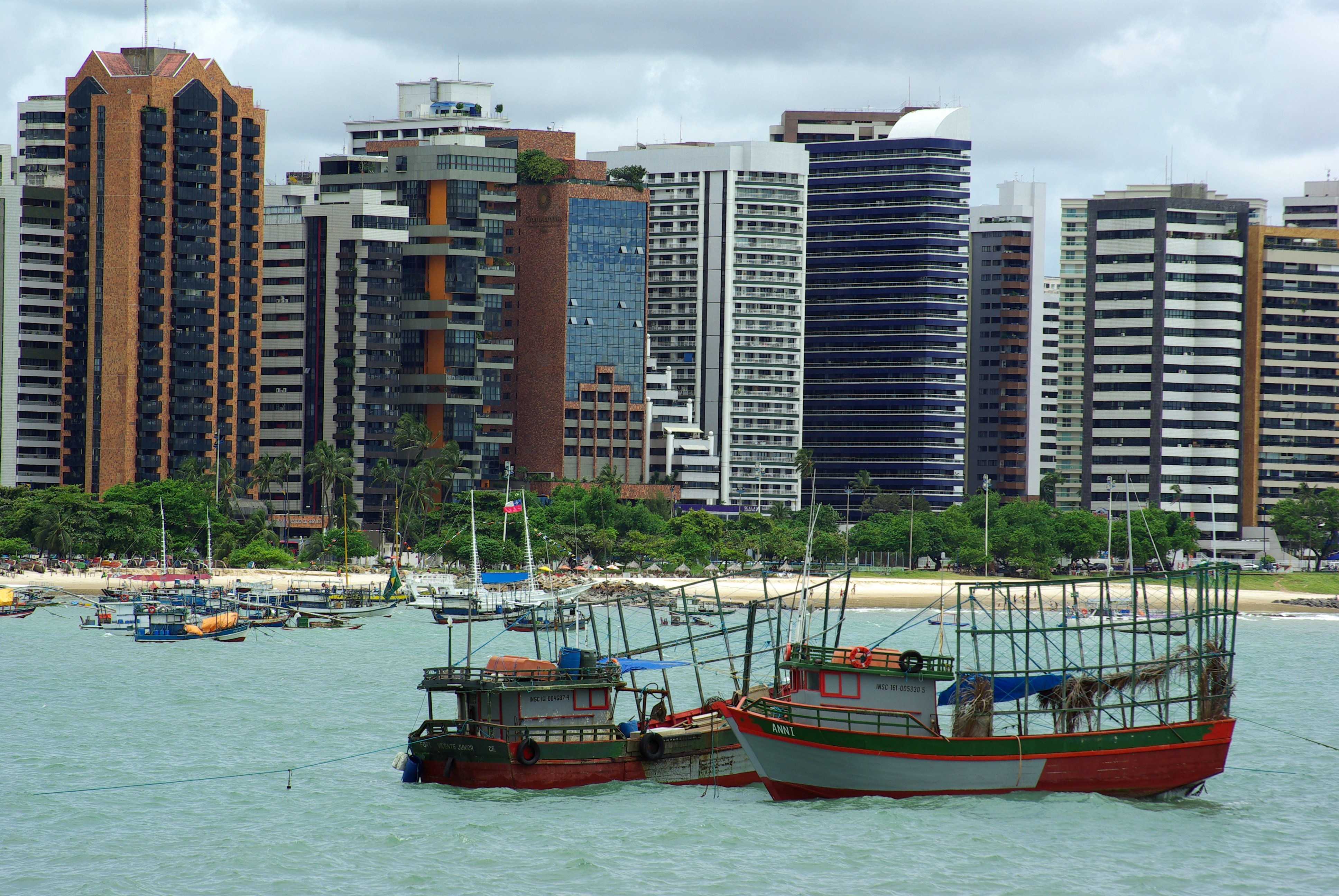 Fortaleza - Ceará - Brazil